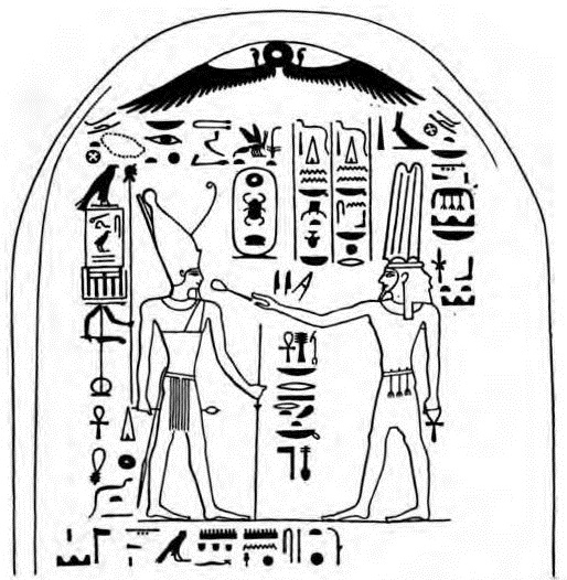 Drawing of a stele depicting the god Horus (right, in his "lord of the Eastern Desert" form) giving life to king Khakheperre (Senusret II, left). Material and provenance unknown.